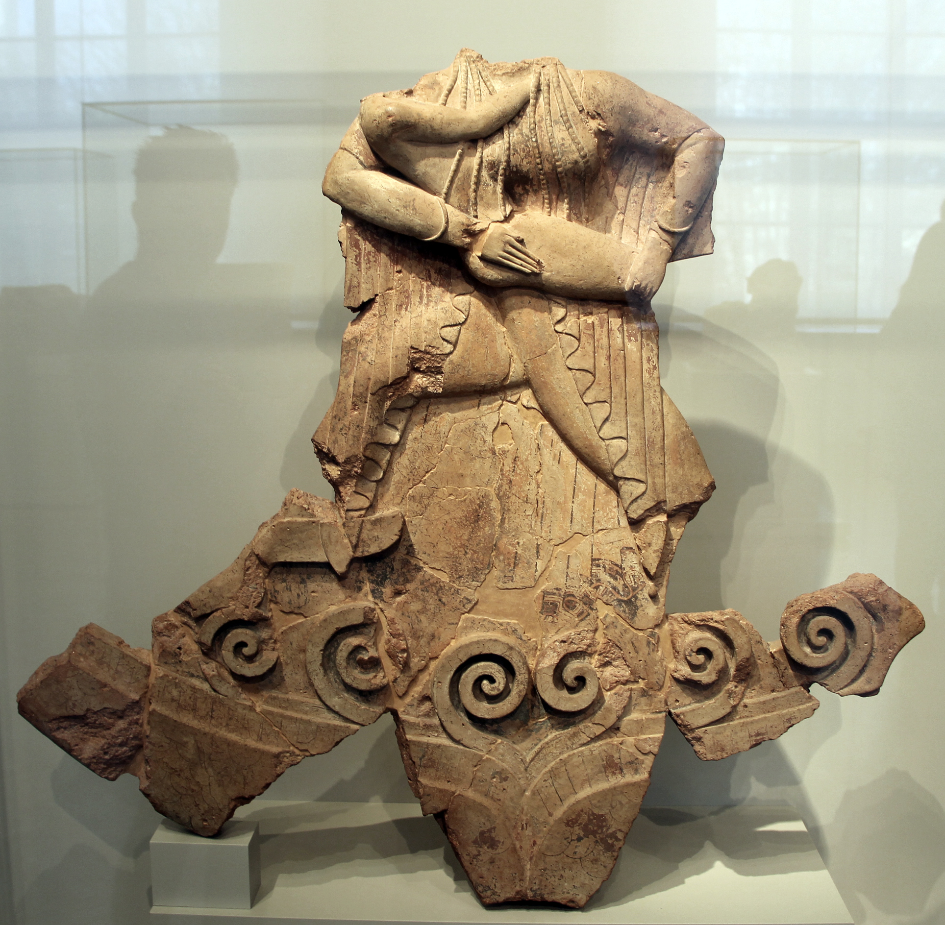 Etruscan antiquities in the Altes Museum Berlin